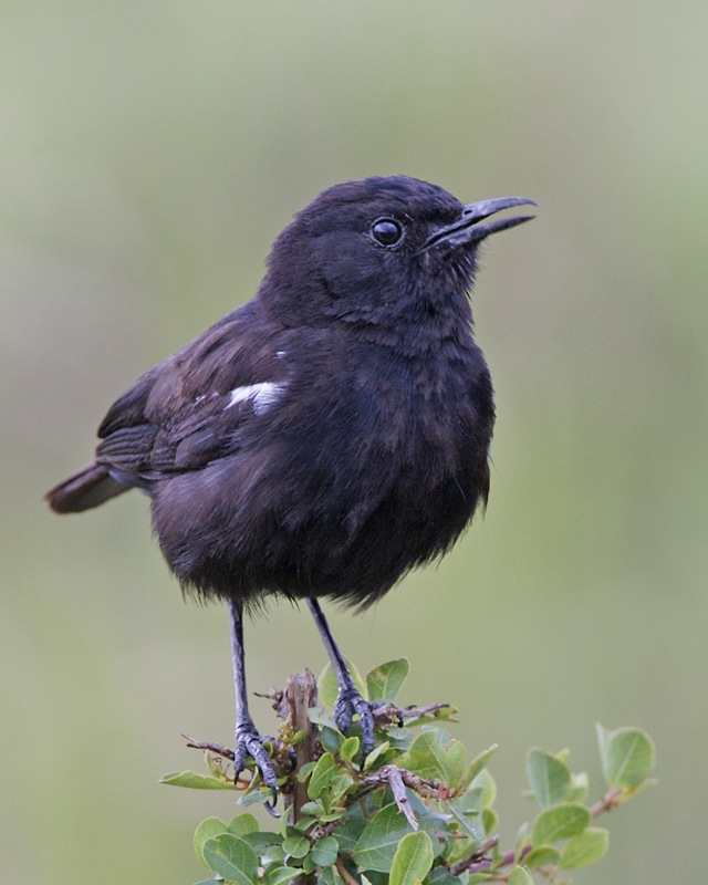 Sooty Chat Myrmecocichla nigra Swahili: Chati Bega-jeupe Masai Mara, Kenya August 28, 2008 690V0986